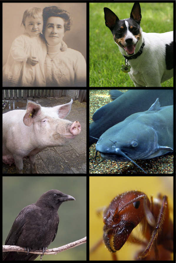 This provides images of organisms that are omnivorous.